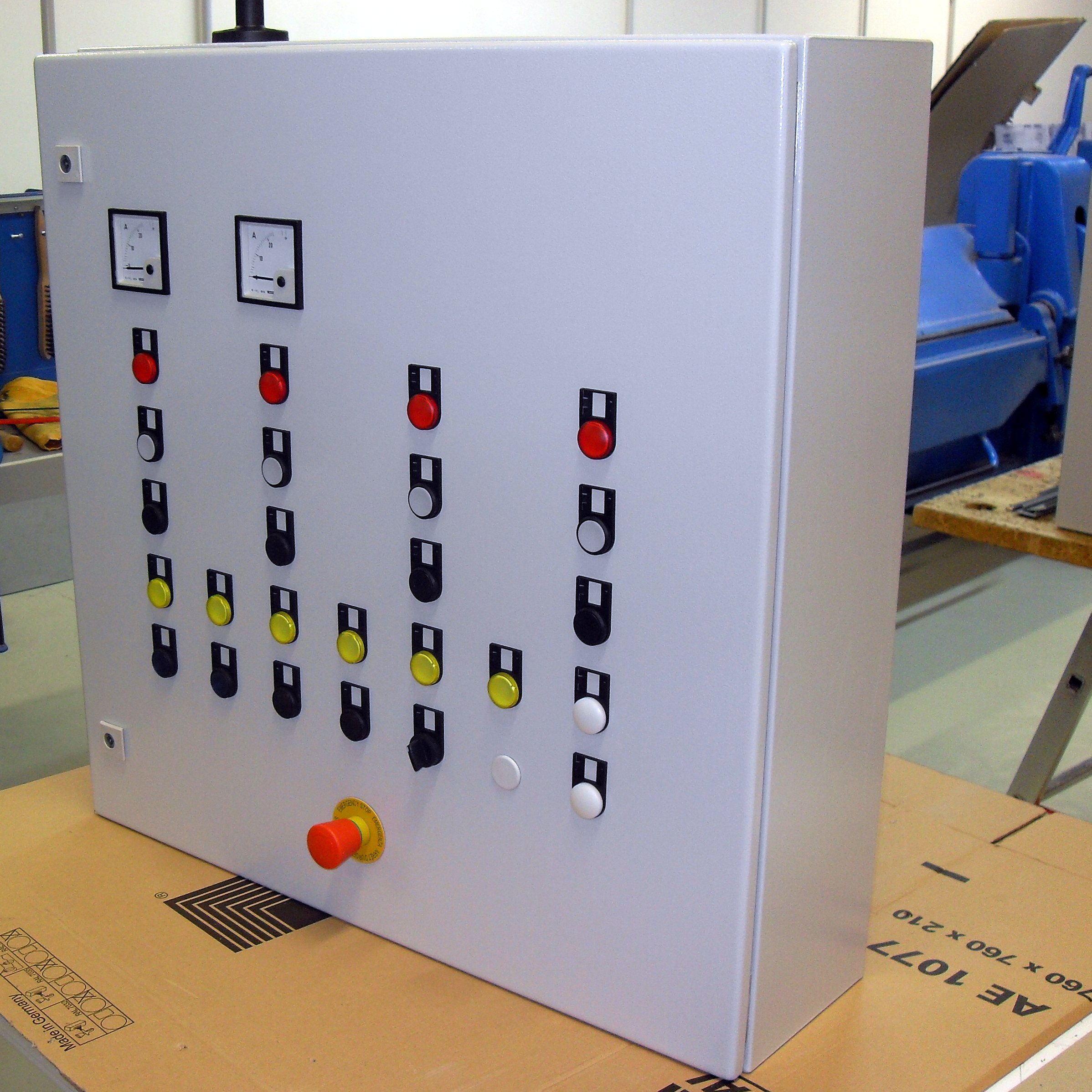 operator panel with pushbuttons made by BMA Automation GmbH, using a Rittal enclosure